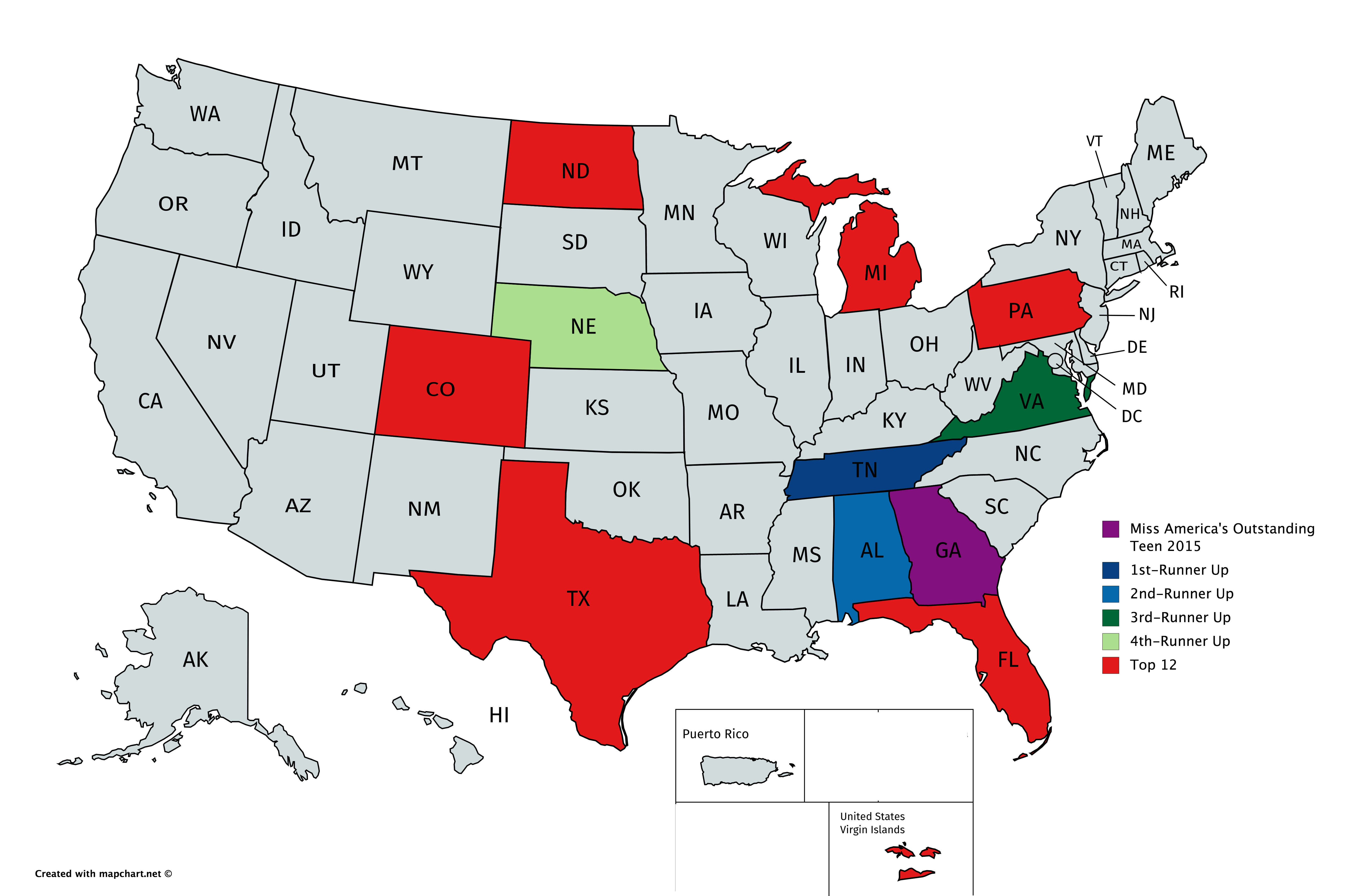 Placements of Miss America's Outstanding Teen 2015 on a map